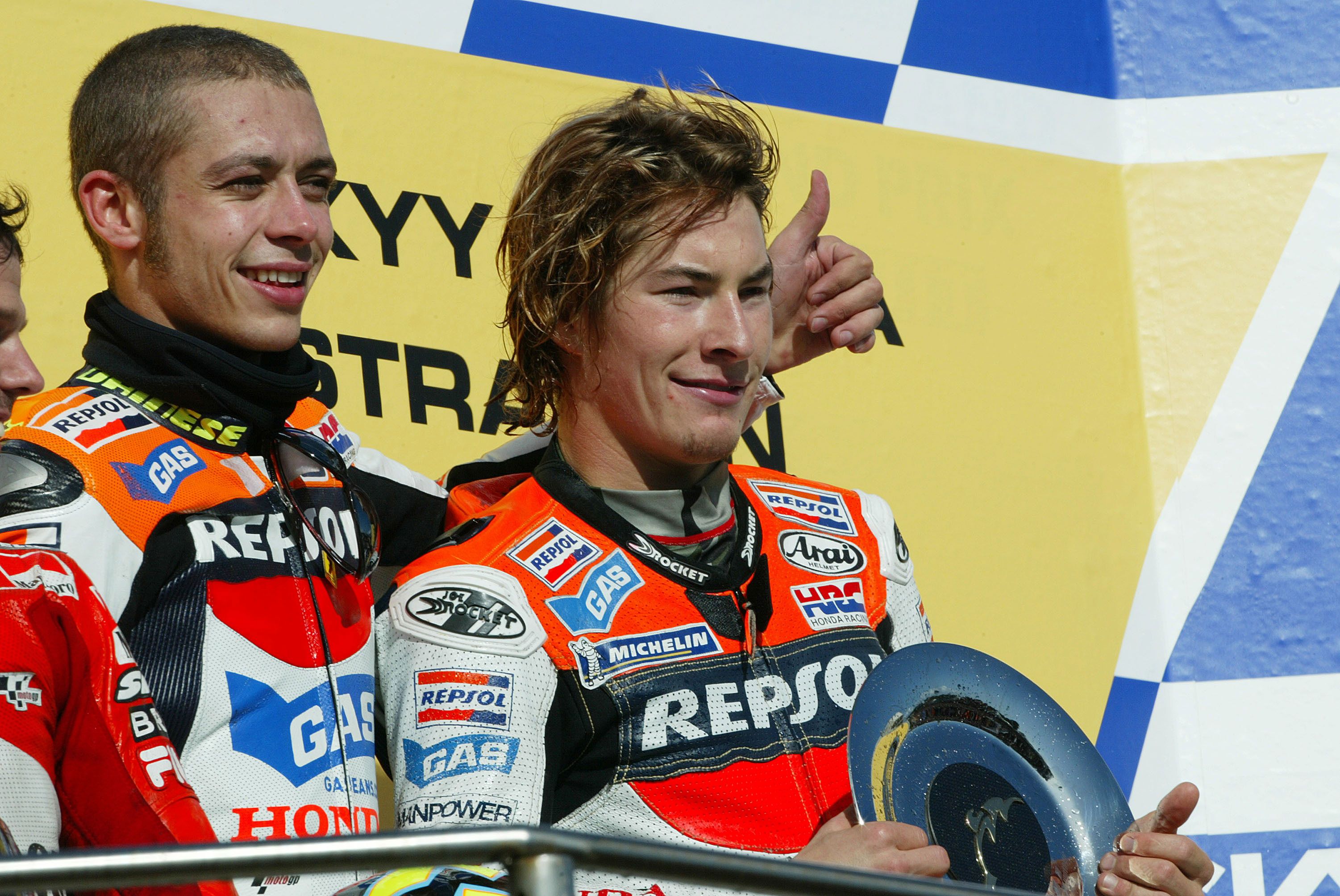 Valentino Rossi and Nicky Hayden, celebrating on the podium after finishing in first and third place at the 2003 Australian Grand Prix.